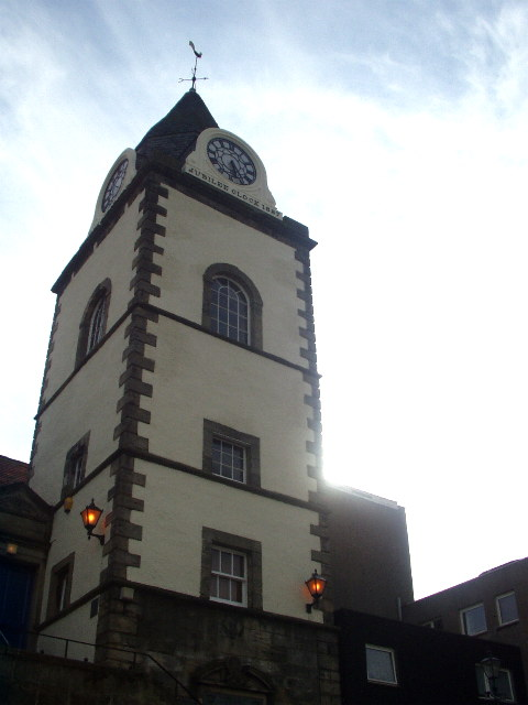 Jubilee Clock Tower, South Queensferry, Scotland